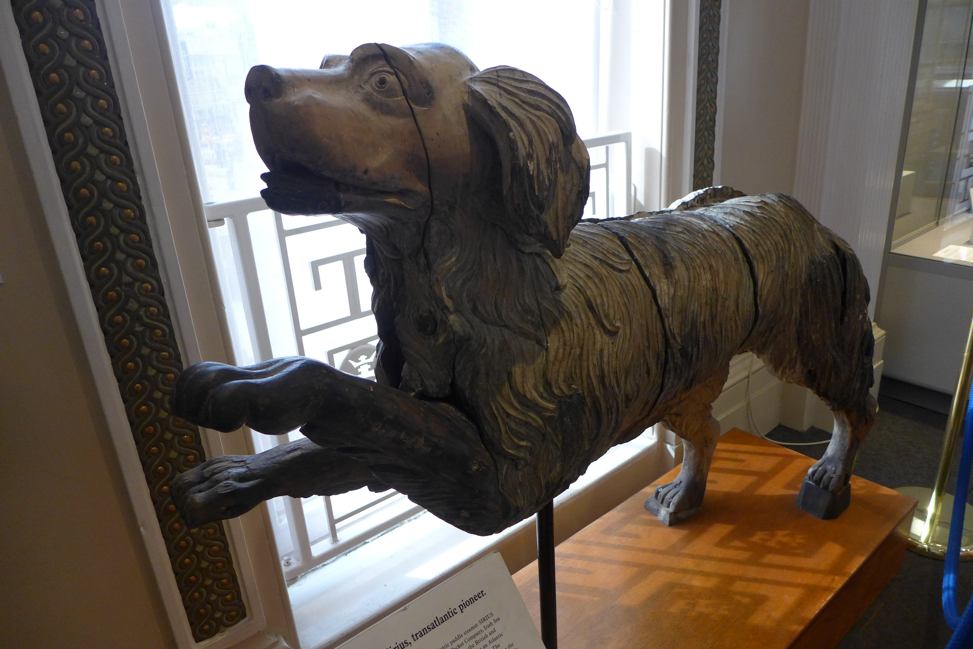 Maritime Museum, Hull Collections Figurehead of Sirius paddlesteamer